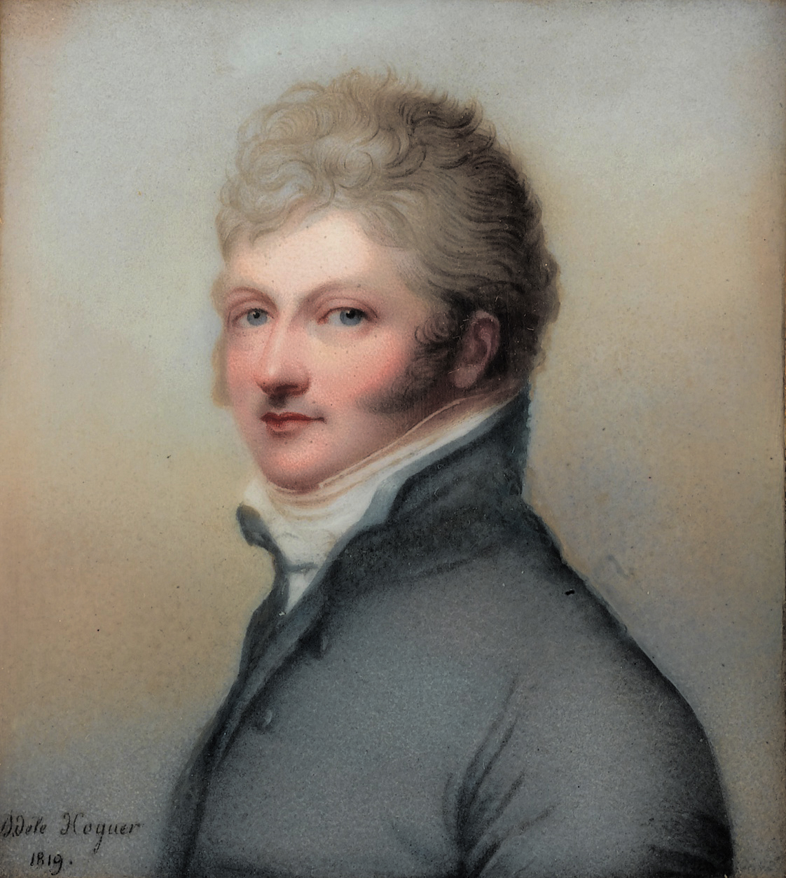 Richard, 2nd Earl of Lucan (1764-1839) porcelain 11,8 x 11,2 cm signed b.l.: Adèle Hoguer / 1819